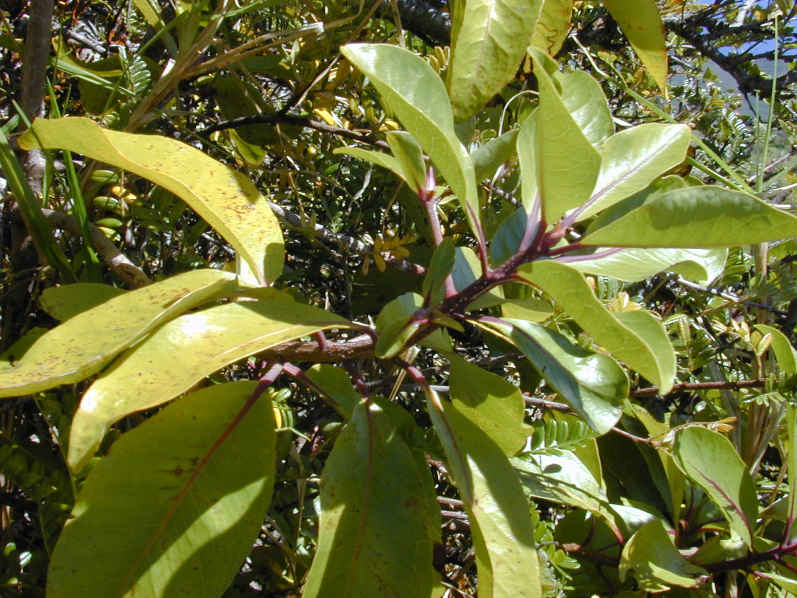 Myrsine lanaiensis (leaves). Location: Maui, Auwahi